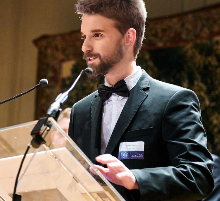 Vidarte in 2018